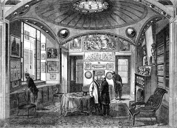 The breakfast parlour at Sir John Soane's Museum as pictured in the Illustrated London News in 1864.